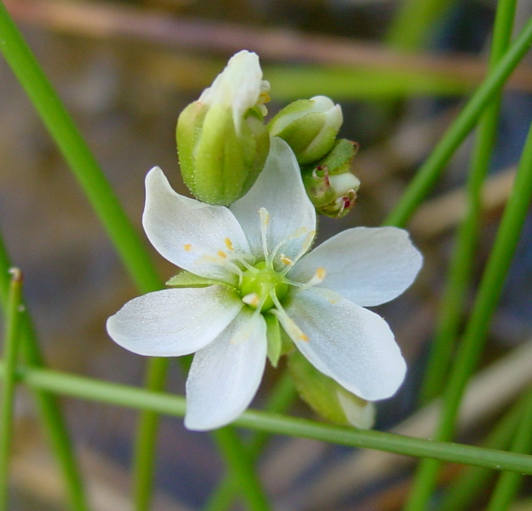 Description:Drosera anglica flower, atypical with 6 petals Photo taken by: Noah Elhardt